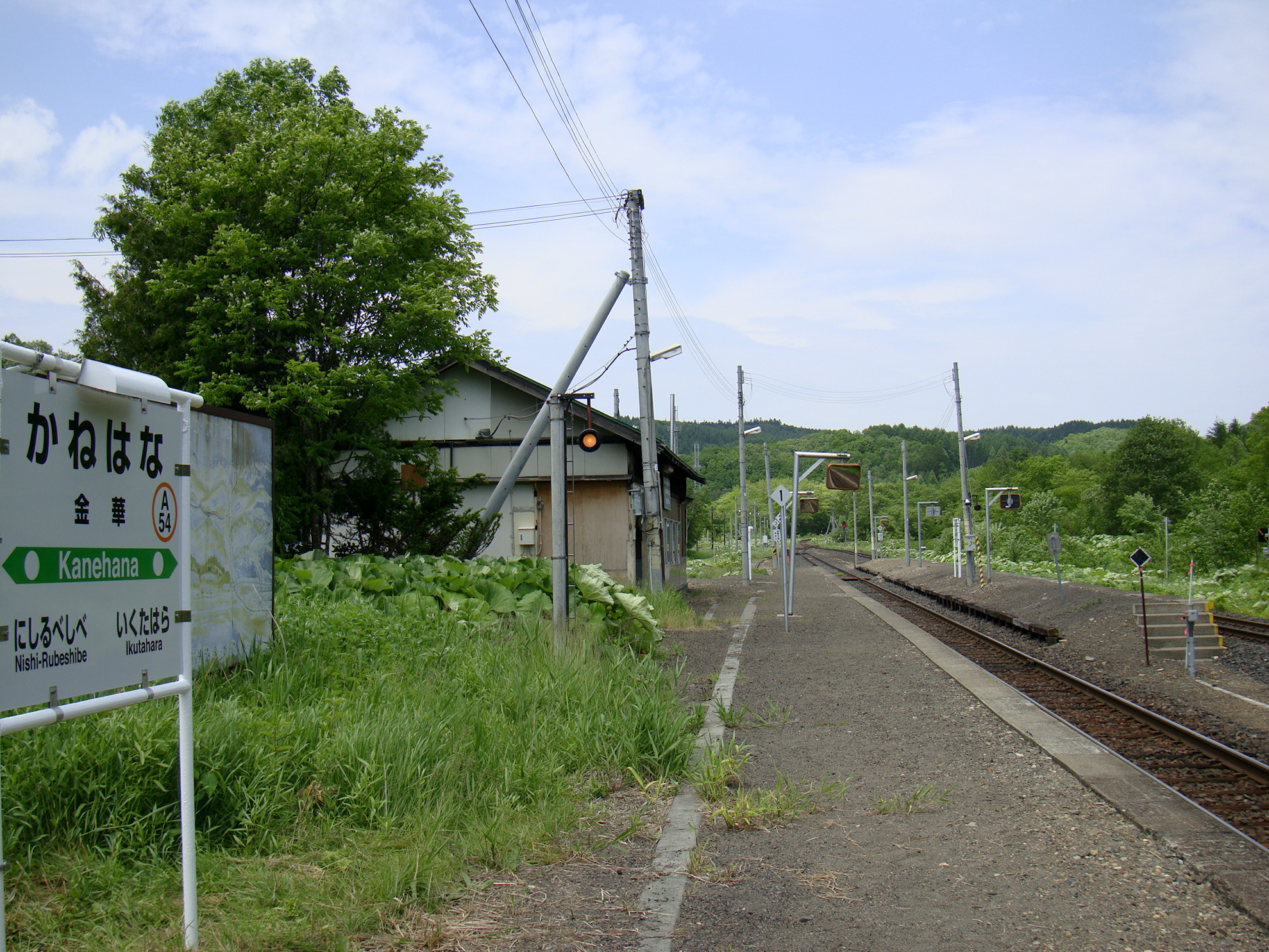 The platform at Kanehana Station